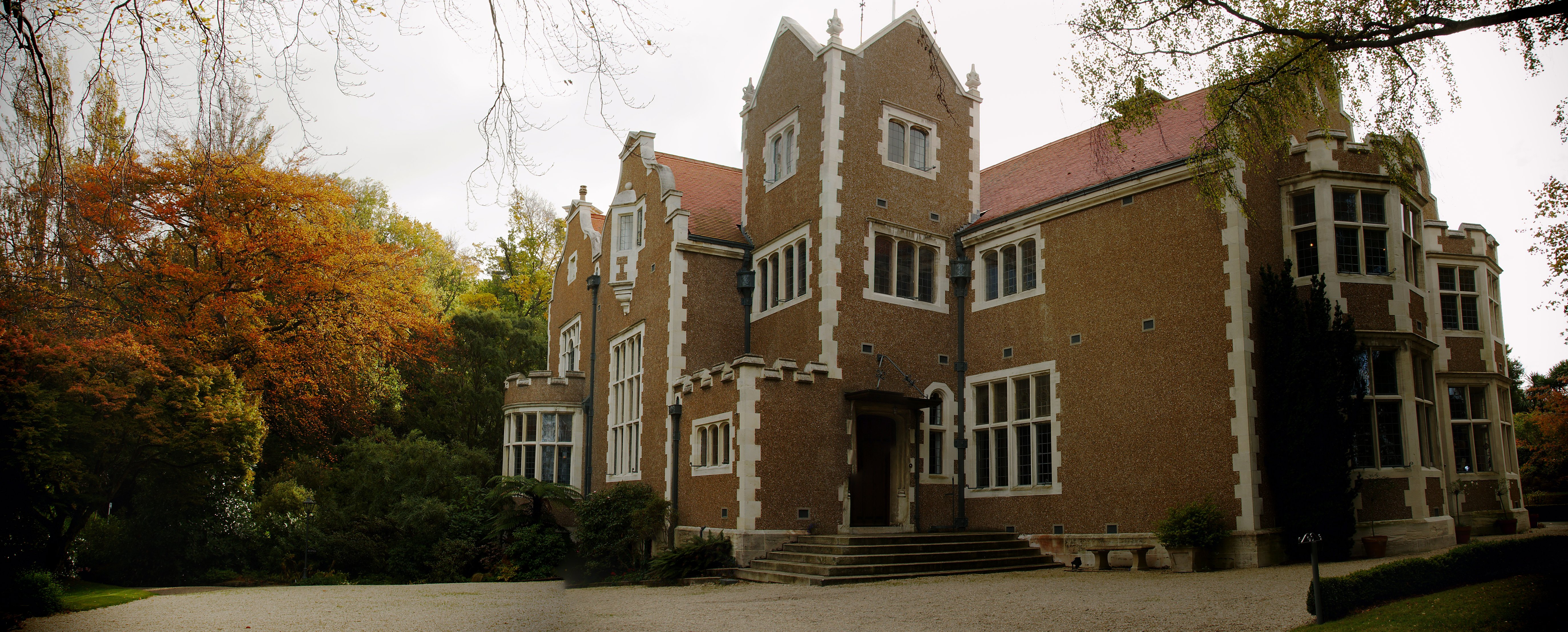 The front entrance and garden of Olveston House, Dunedin, New Zealand